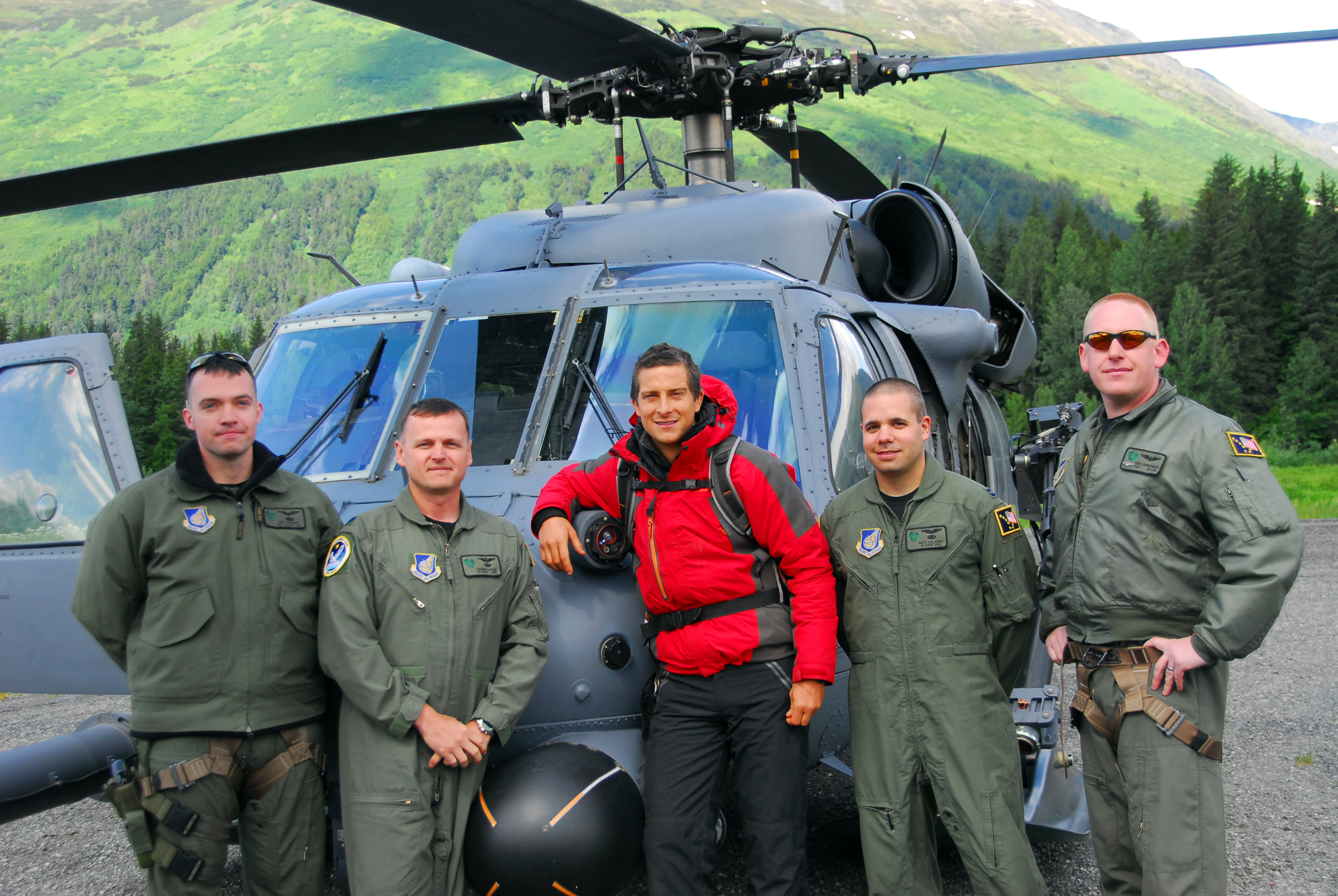 Bear Grylls in front of an Alaska Air National Guard, 210th Rescue Squadron HH-60 Pave Hawk helicopter before heading out to Spencer Glacier to film Man vs. Wild (Born Survivor).